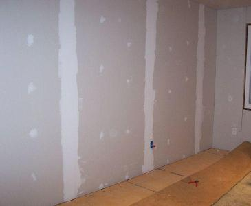 Drywall Self-owned, released to PD